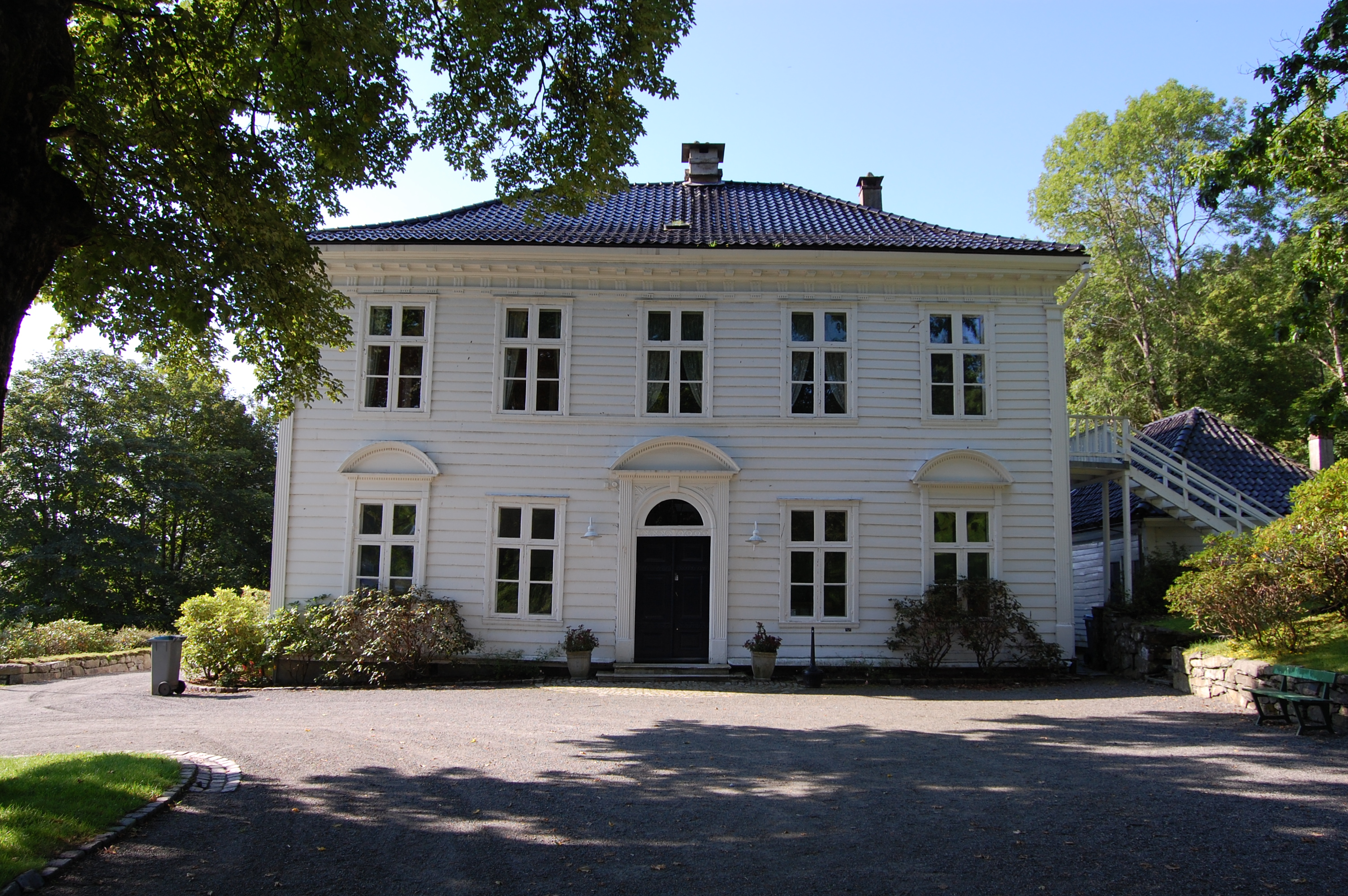 Fjøsanger hovedgård